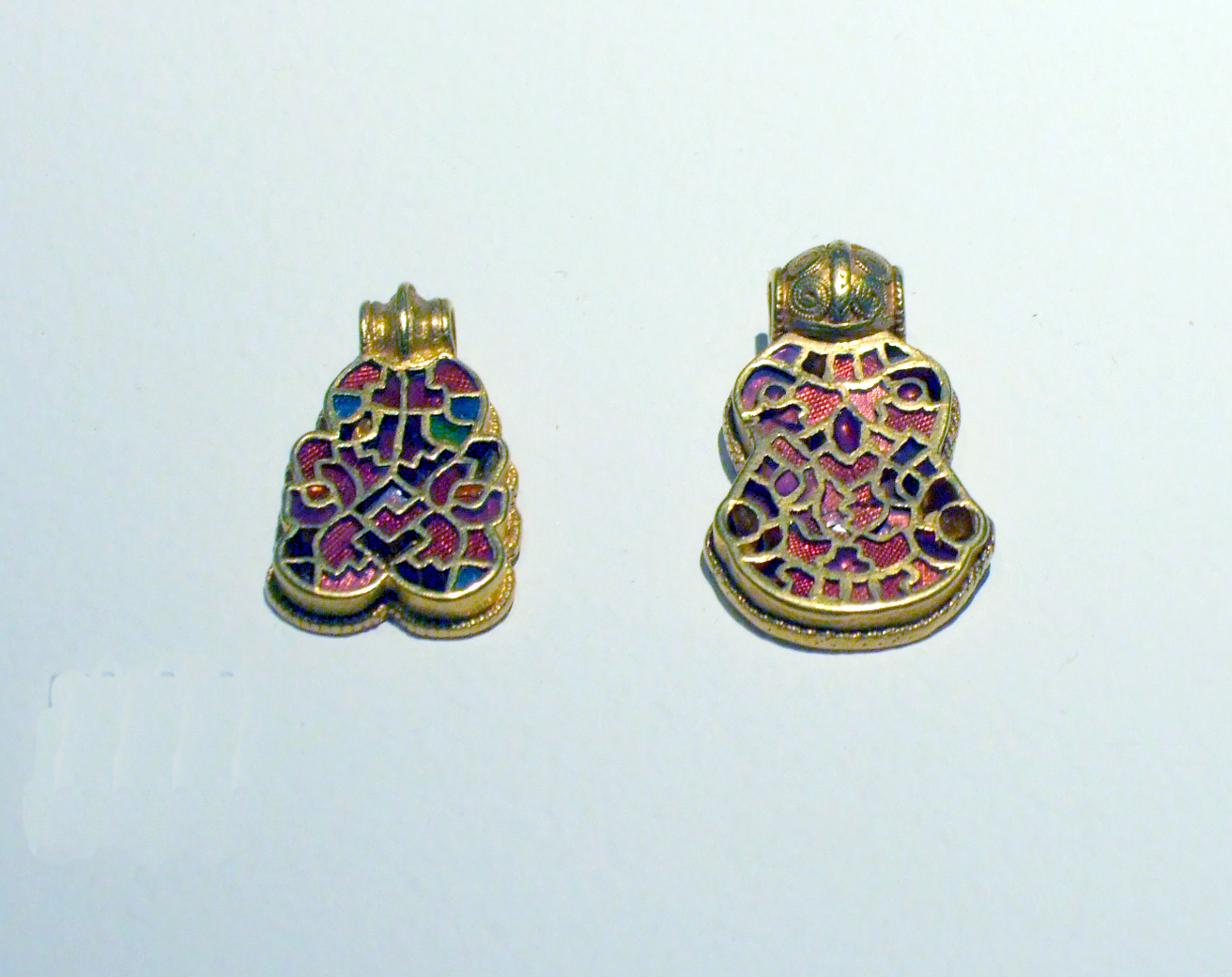 Golden pendants from a Germanic woman's burial - Grave 2 of the grave field Fenéki Street at Keszthely-Fenékpuszta Zala County, Hungary Two pear-shaped pendants of gold. The front sides are decorated in cloisonné manner (compartments with inlays). The compartments are filled with almandines as well as blue and green glass inlays on thin-walled cloisons of gold foil. These finds lay scattered in the fill dirt of the burial of a 16- to 18-year-old woman and are counted among the most unusual goldsmith works of 6th-century Pannonia. They presumably date to the period after 568, when the Lombards departed for Italy. They are nonetheless undoubtedly of Germanic origin. This burial was in Grave 2 of the grave field Fenéki Street at Keszthely-Fenékpuszta, a site comprising ten graves located north of the late Roman fortress of Keszthely-Fenékpuszta. Corpses were interred in individual, narrow burial holes. The actual holes were covered with wooden boards. In addition, there were some interments in tree trunk coffins. Photographed while on display from 22 August 2008 to 11 January 2009 in the exhibition "Die Langobarden. Das Ende der Völkerwanderung" at the Rheinisches LandesMuseum Bonn. On loan from the Balatoni Múzeum Keszthely.